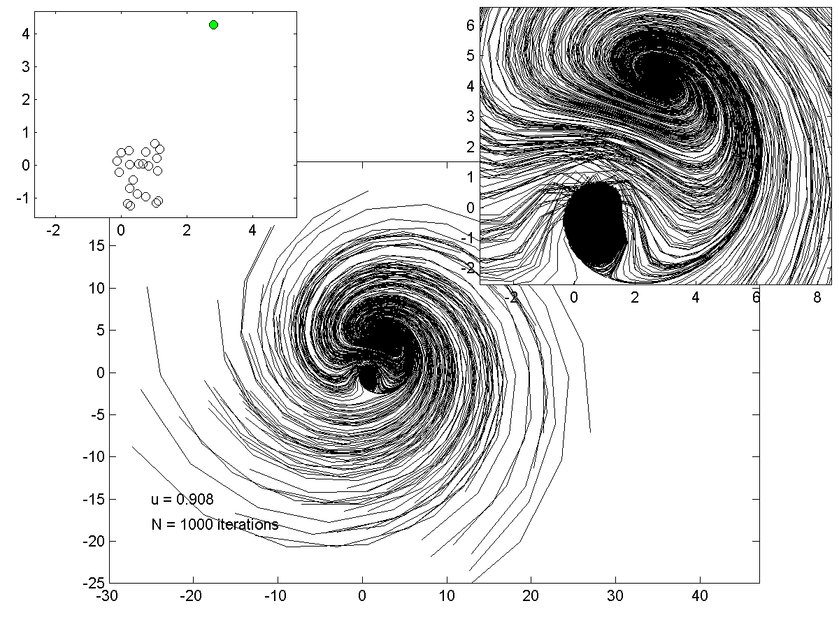 Ikeda trajectory plot made using MATLAB